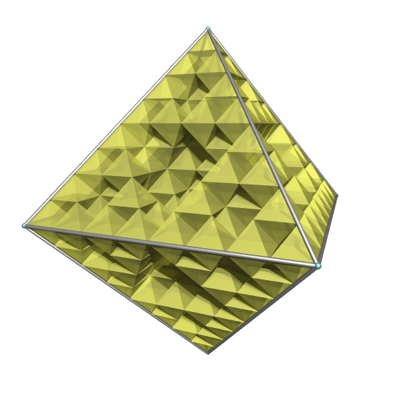 Octaedron fractal. Scale factor: 1/2, replication factor: 6